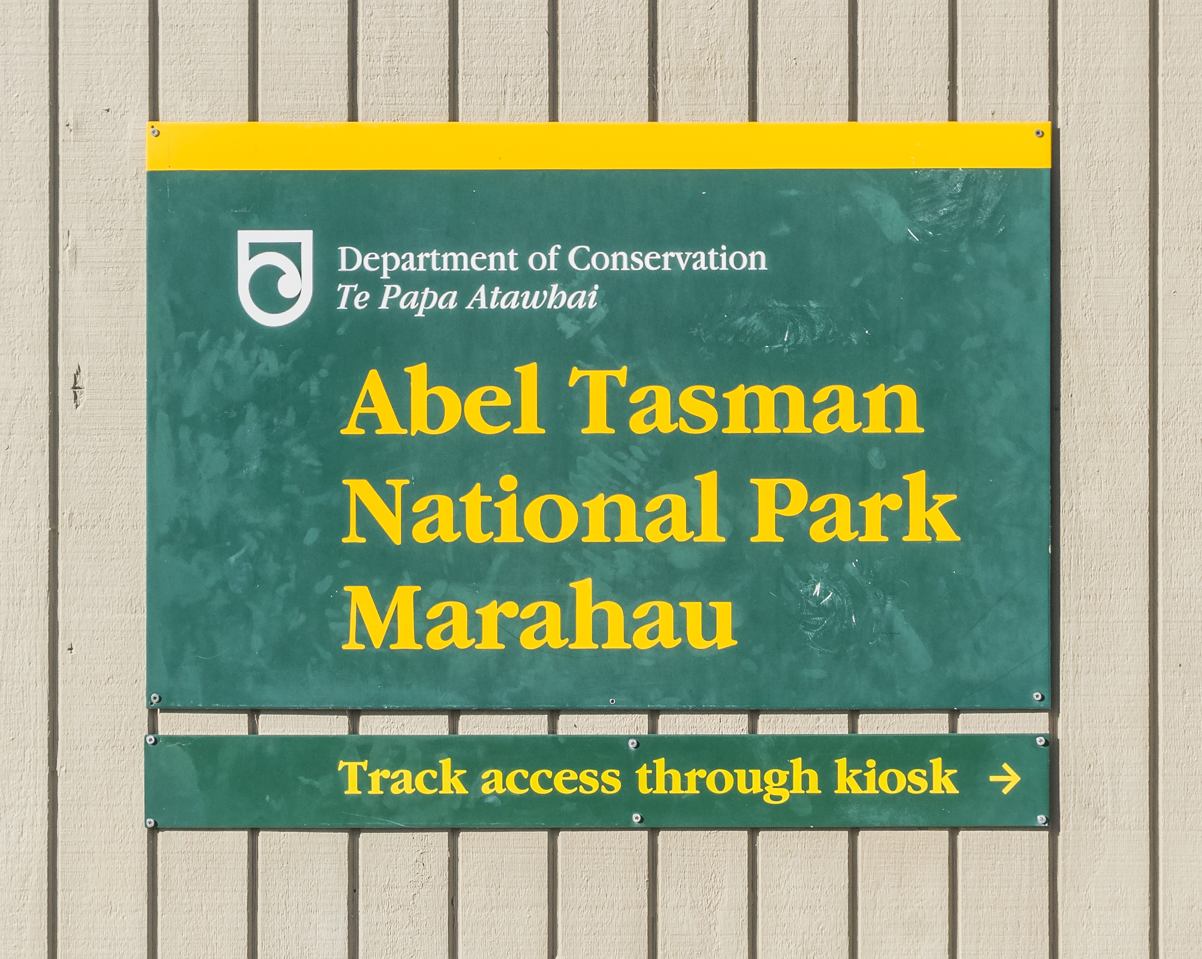 Information board in Abel Tasman National Park, South Island of New Zealand